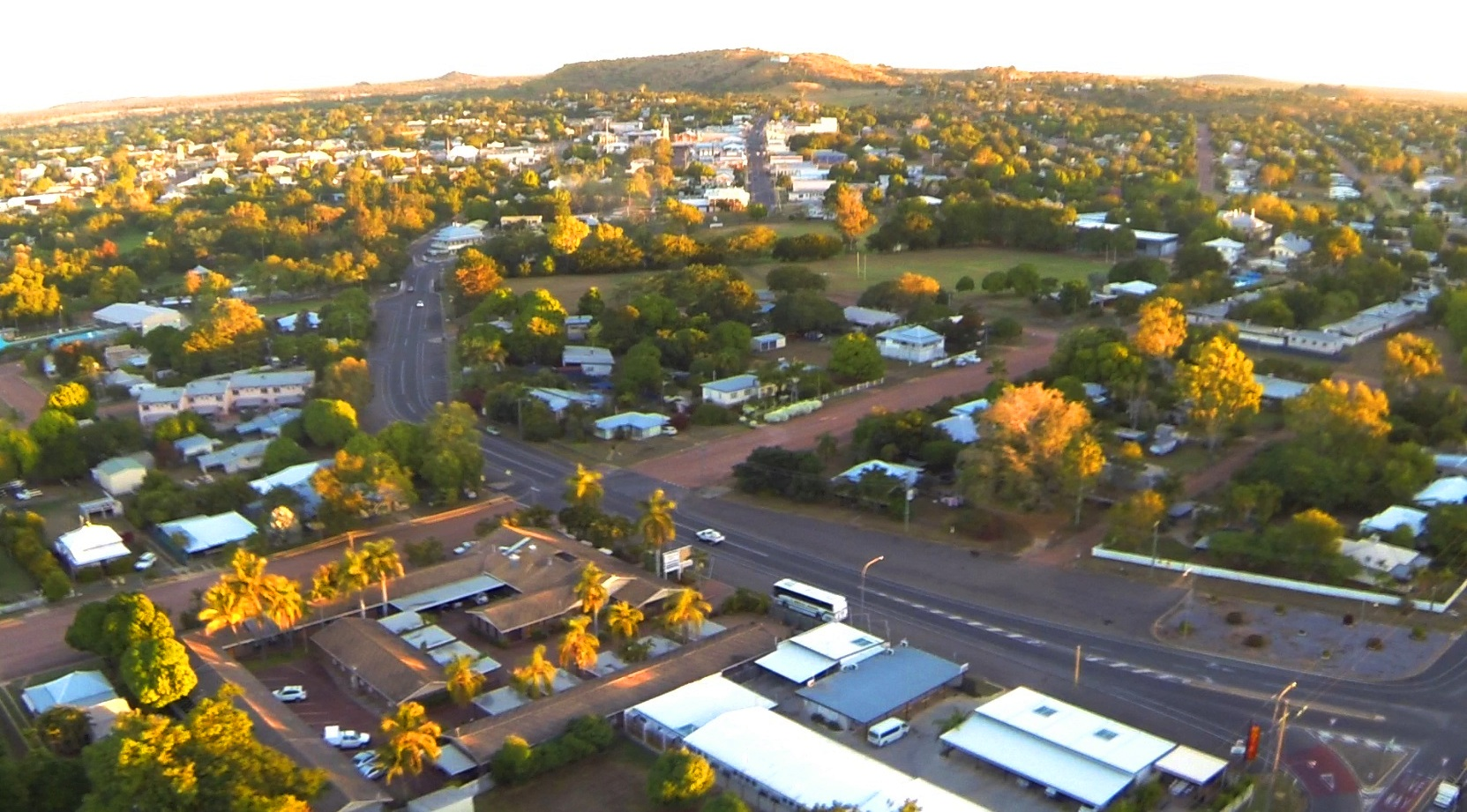 Charters Towers Aerial View. Lower right is intersection of Bridge Street with Hackett Terrace in Richmond Hill. Looking SSW along the curve of Bridge/Deane Street. In the centre distance there is Mosman Street in Charters Towers City lined with shops leading to Towers Hill in the far distance.